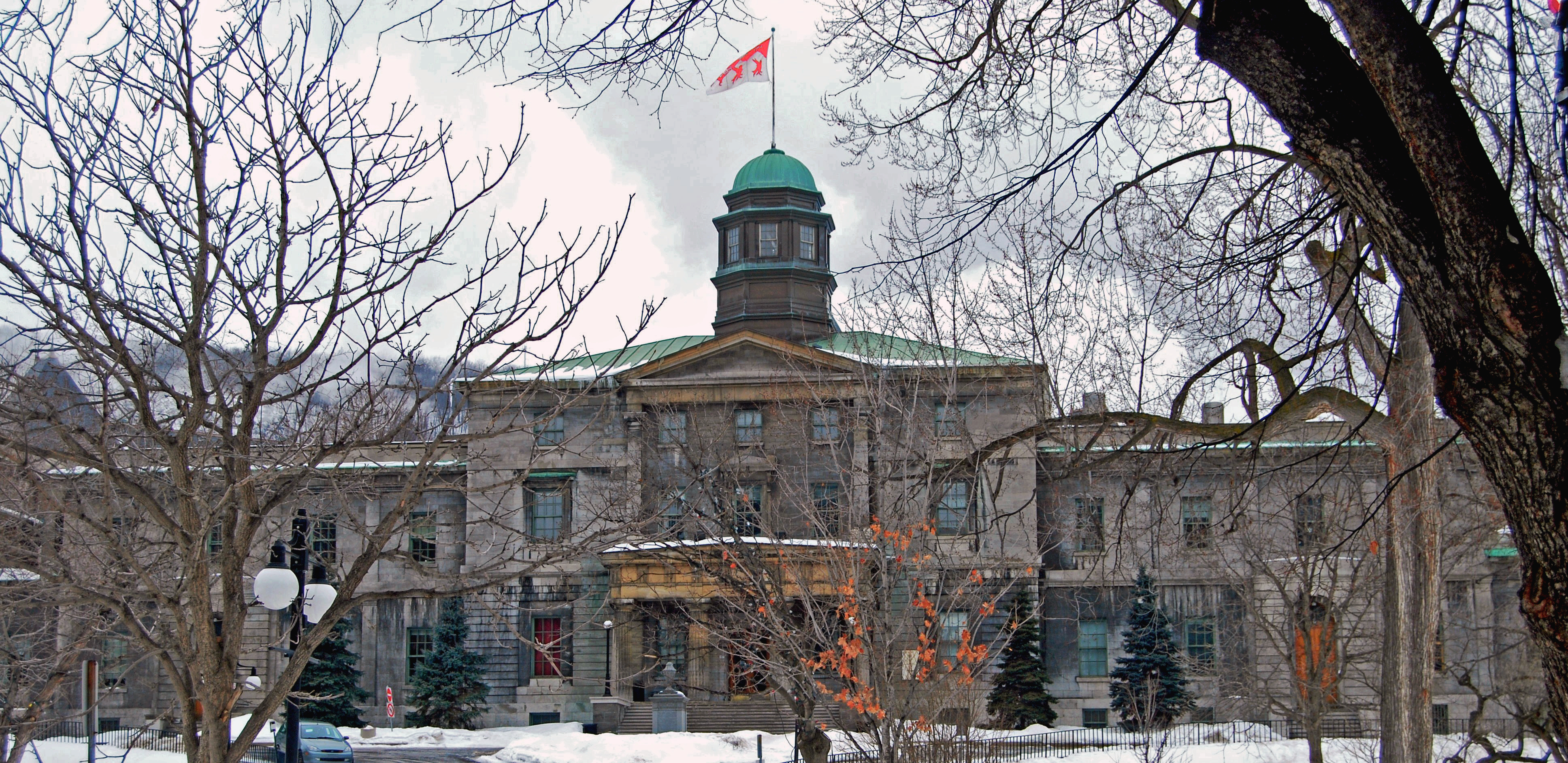 McGill University Campus Arts Building 853 Sherbrooke Street West, Montreal, Quebec, Canada